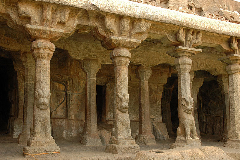 Pancha Pandava cave. Mahabalipuram, India